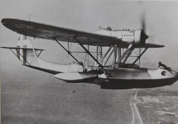 Catalog #: 00076599 Manufacturer: CANT (C.R.D.A.) Designation: Z 501